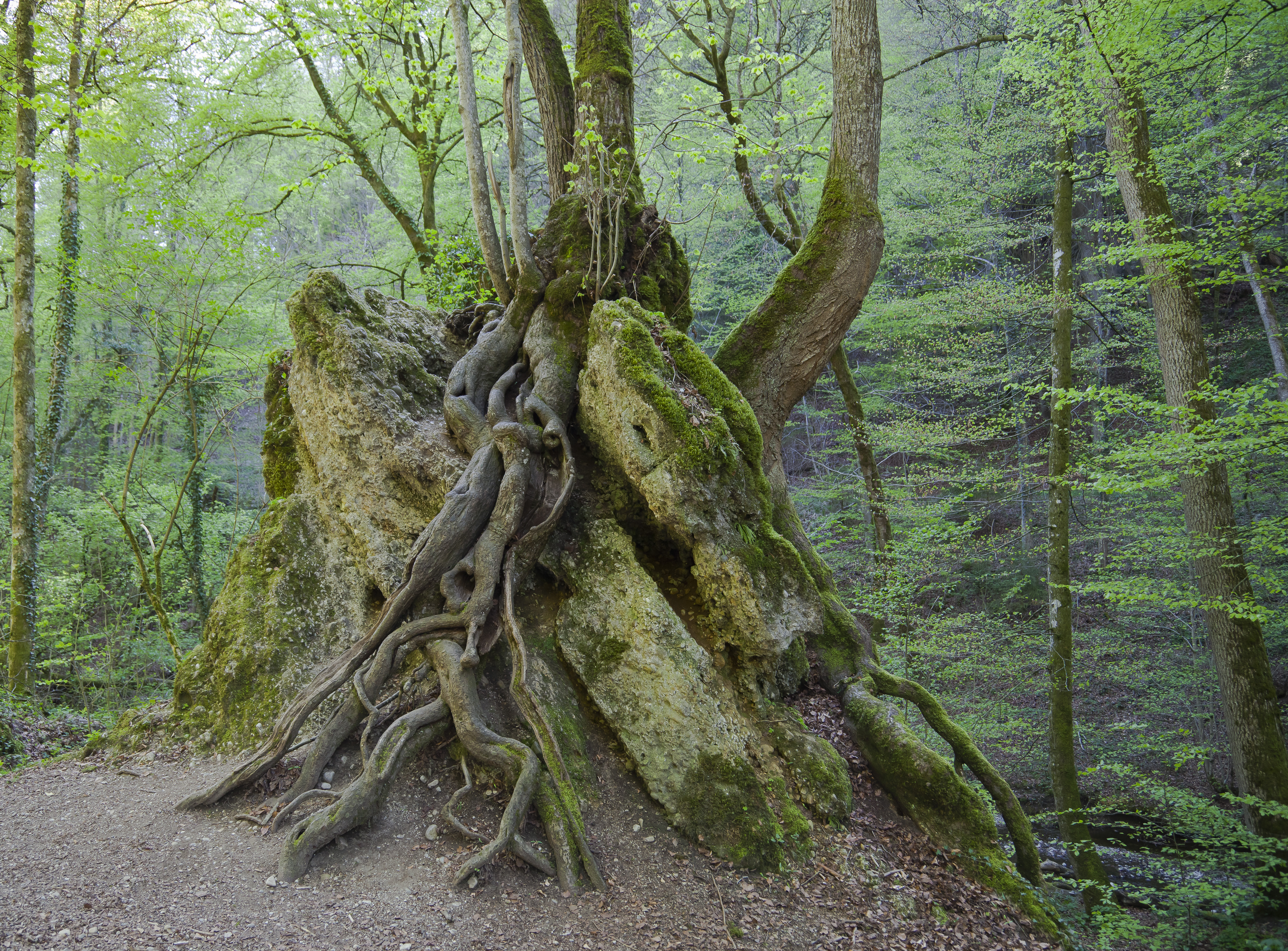 Tree with visible roots in Kiental, between Herrsching and Andechs, Germany